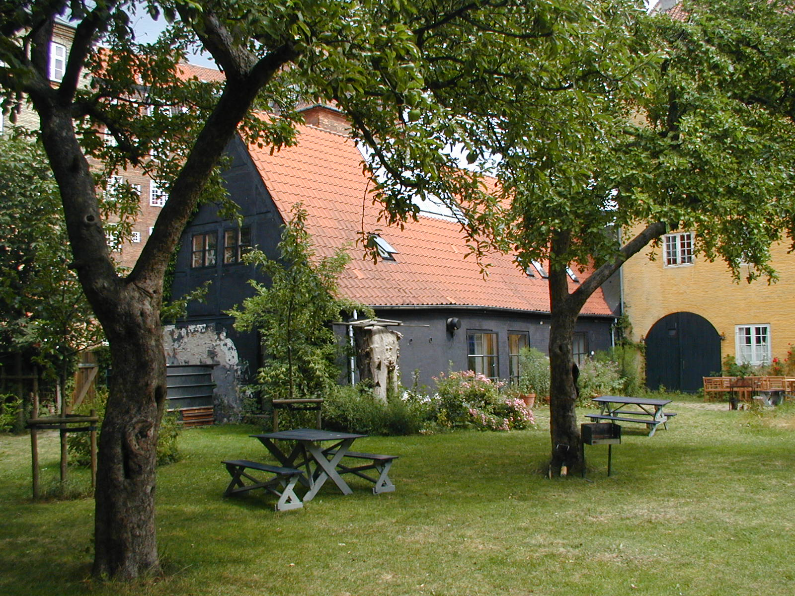 The former courtyard of Wildersgade Barracks in Christianshavn, Copenhagen, Denmark